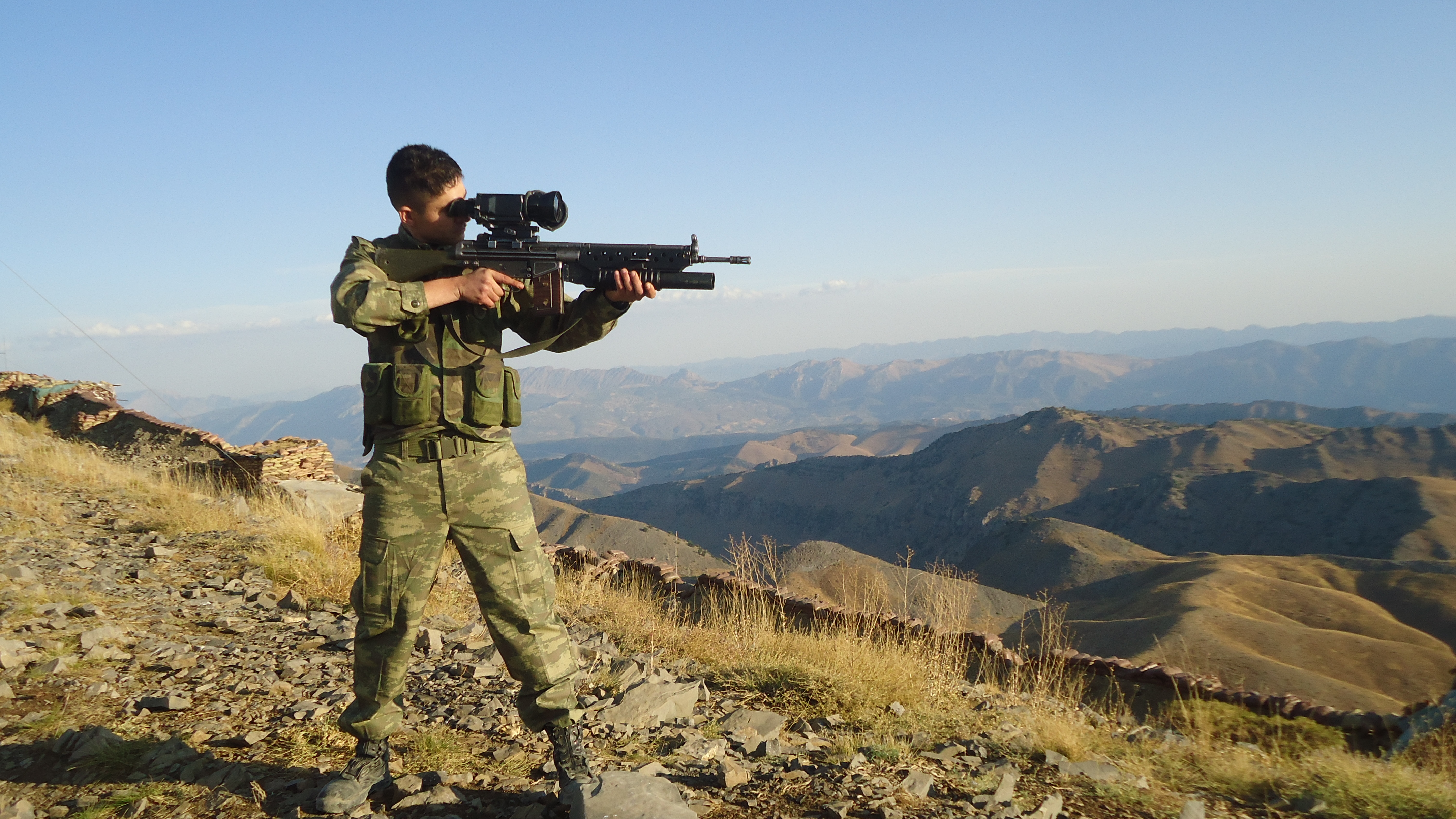 G3A3 with equipment Engerek 3+ Thermal Optics and T-40 Grenade Launcher Soldier: Third Lieutenant Yılmaz DALKIRAN (in Turkish Army) / Place: Kur-ē Shīn, Northern Iraq / Date: 29/September/2011